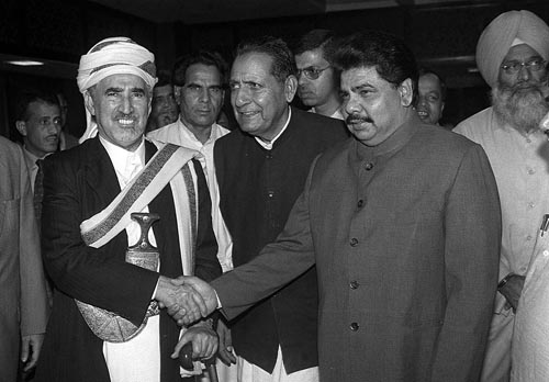 The Visiting Yemeni Parliamentary Delegation led by Sheikh Abdulla Bin Hussein Al Ahmar, the Speaker of the House of Representatives of the Republic of Yemen called on the Lok Sabha Speaker Shri G.M.C Balayogi in New Delhi on April 27, 2001.